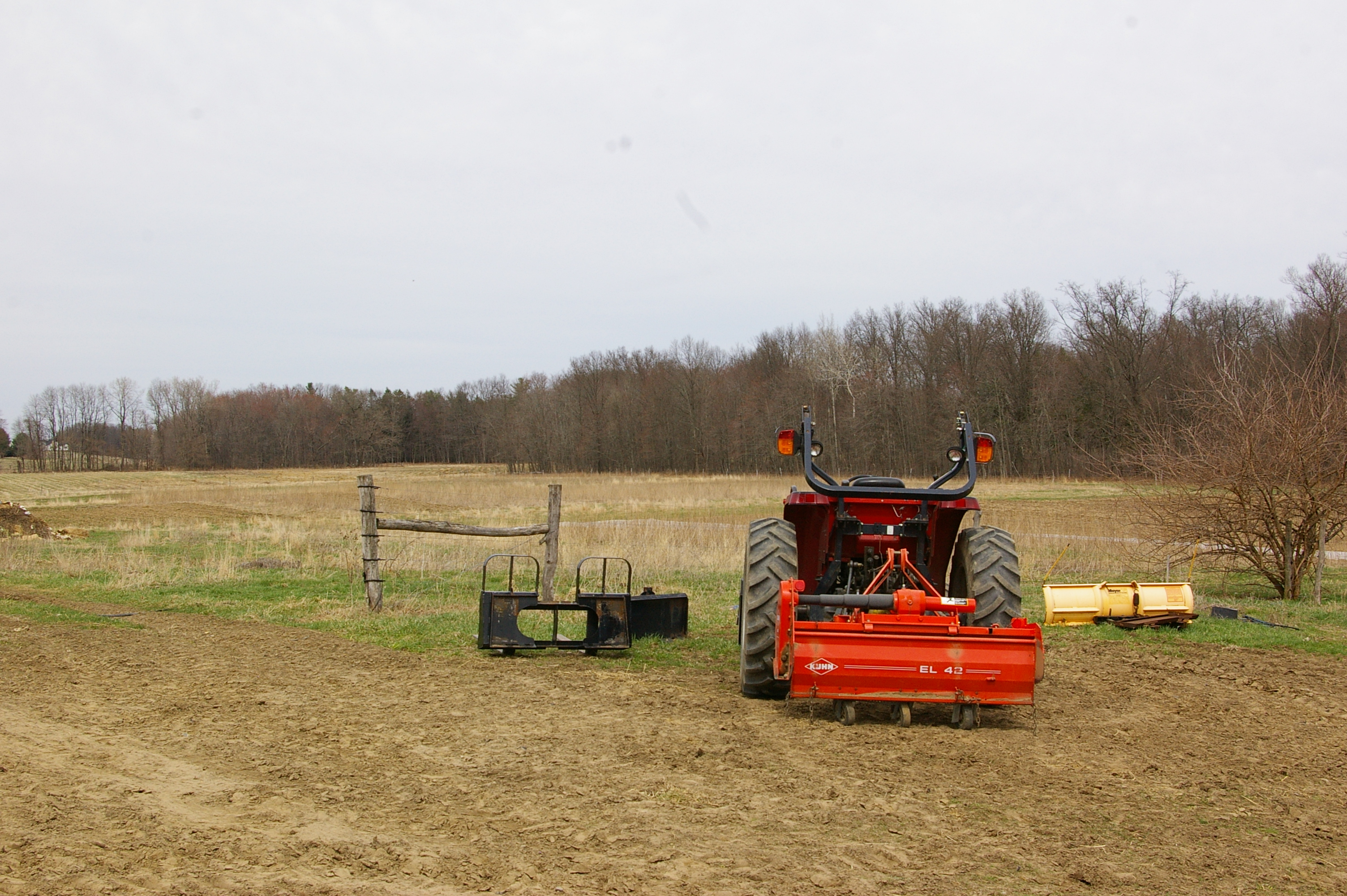 The landscape at Monkshood Nursery in Columbia County, NY.